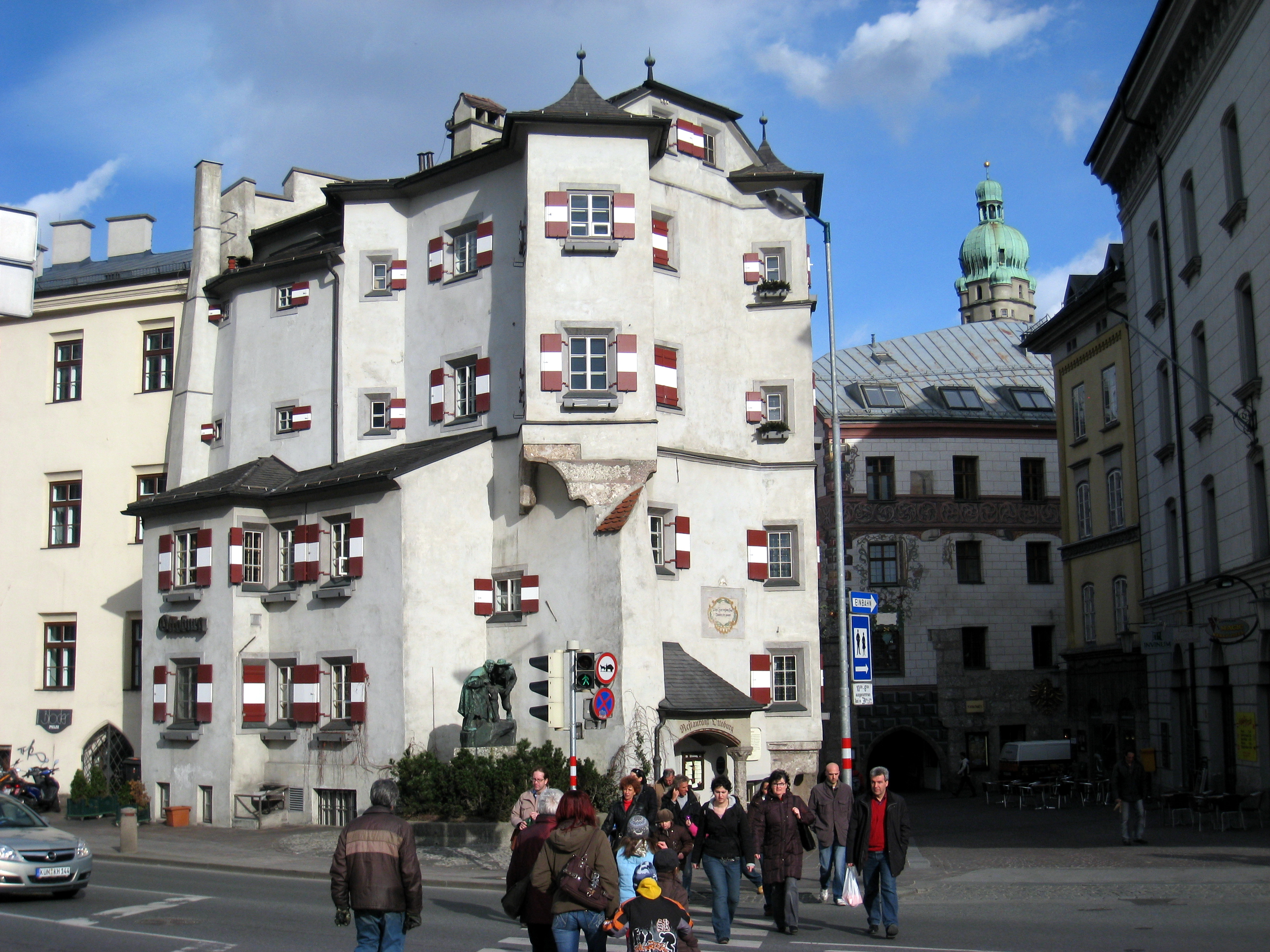 Innsbruck, Austria - Ottoburg viewed from riverside.